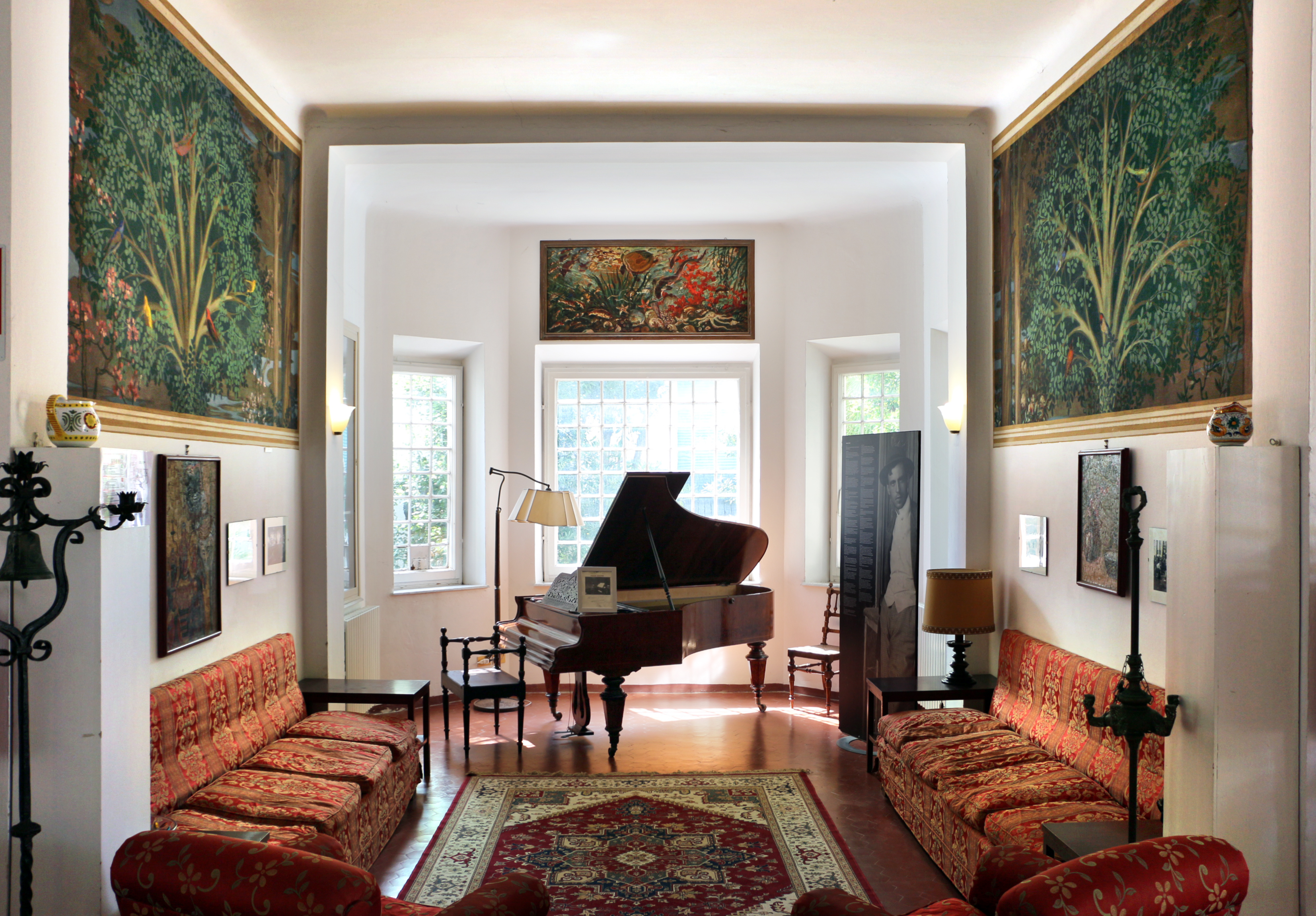 Villa Chini (Lido di Camaiore)